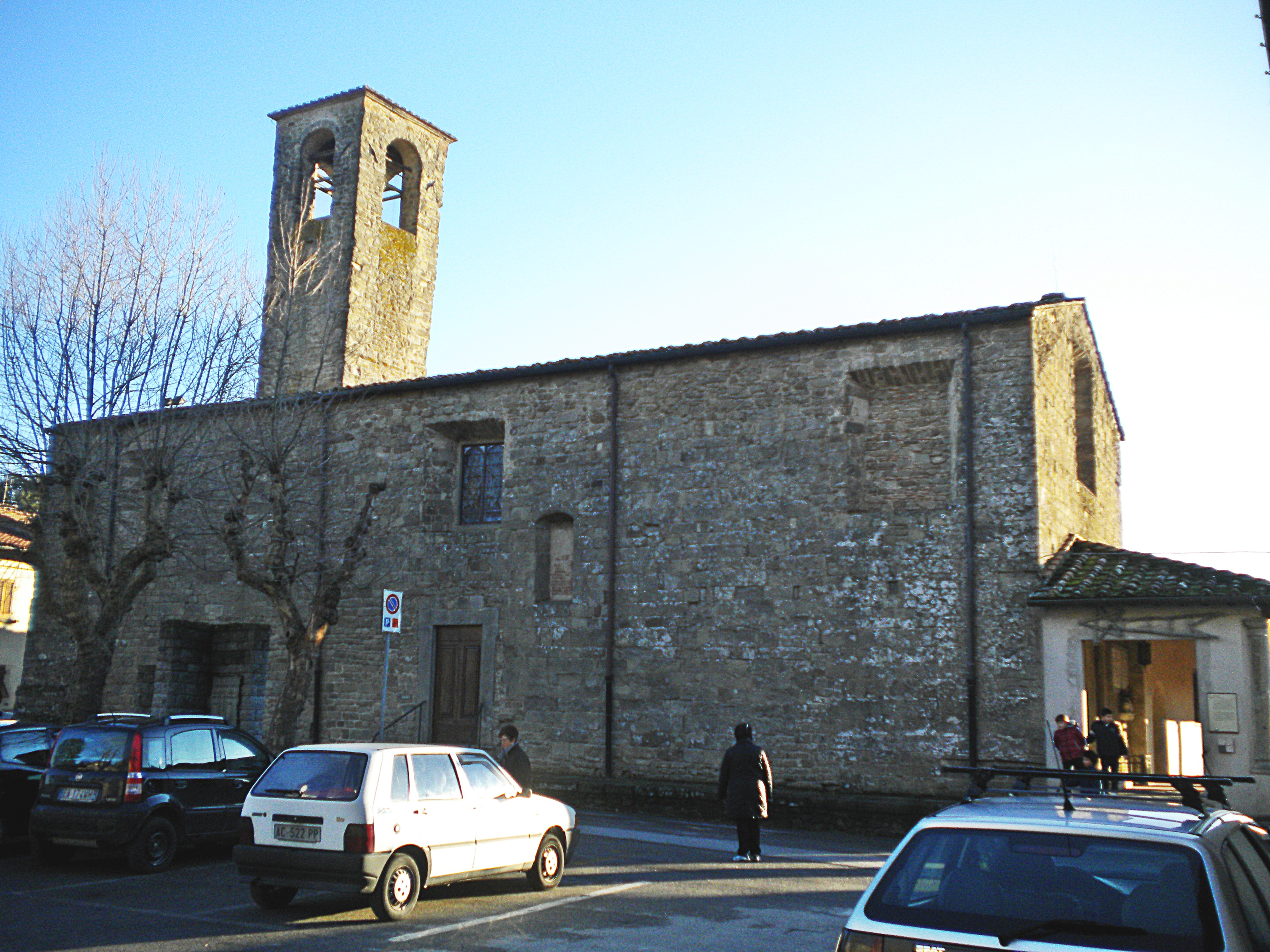 the church